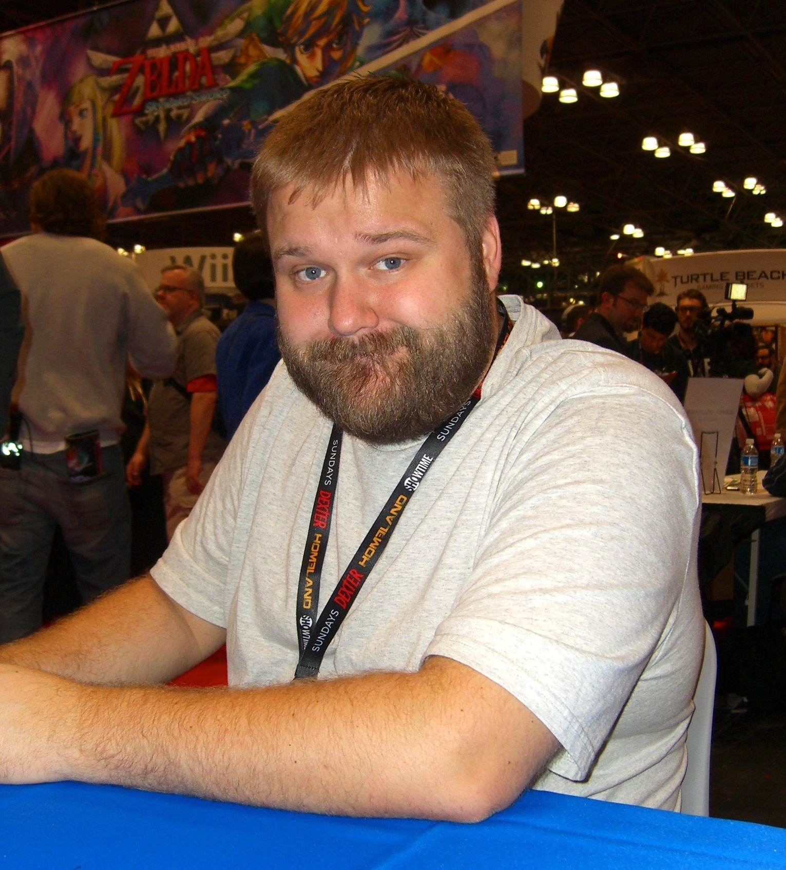 Comic book creator Robert Kirkman signing books and memorabilia for fans at the 2011 New York Comic Con, October 14, 2011. This photo was created by Luigi Novi. It is not in the public domain, and use of this file outside of the licensing terms is a copyright violation.